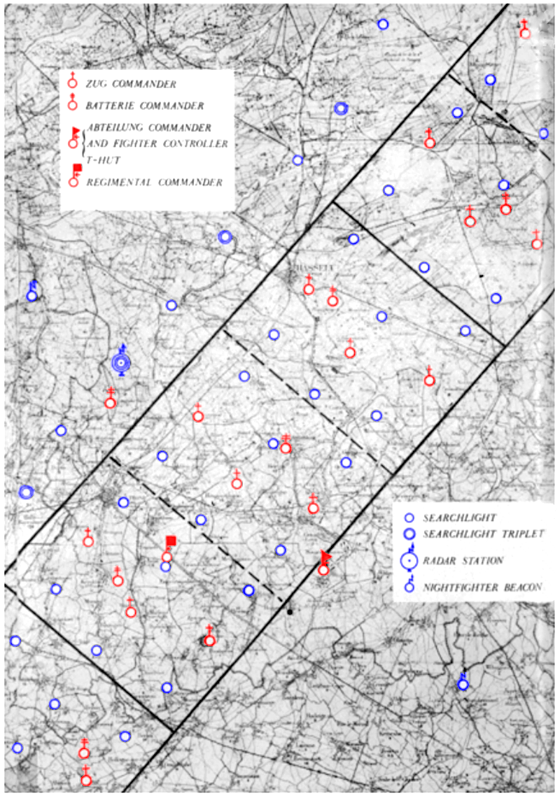 A map of the Kammhuber Line stolen by the Belgian Resistance Network Tégal and passed-on to Britain. The original caption reads: Part of a German map stolen by a Belgian patriot (agent Tegal) 20 April, 1942, showing the entire radar and searchlight dispositions in one box (No. 6B) of the Kammhuber Line. The box of 27 searchlights occupies a front of 30 kilometres. The map covers the area of Hasselt (Province Limburg Belgium).